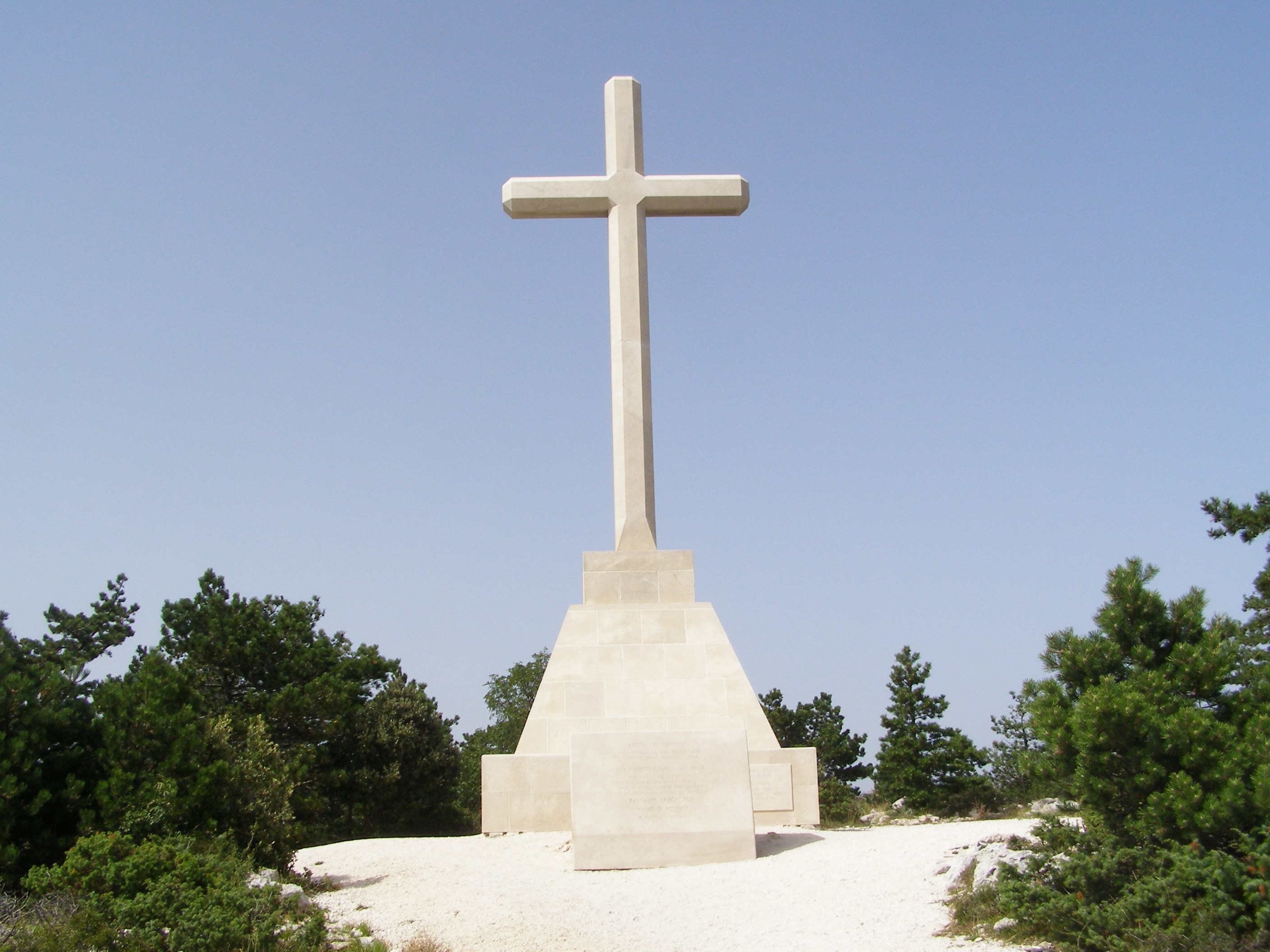 Vidova Gora mountain, Island of Brač, Croatia